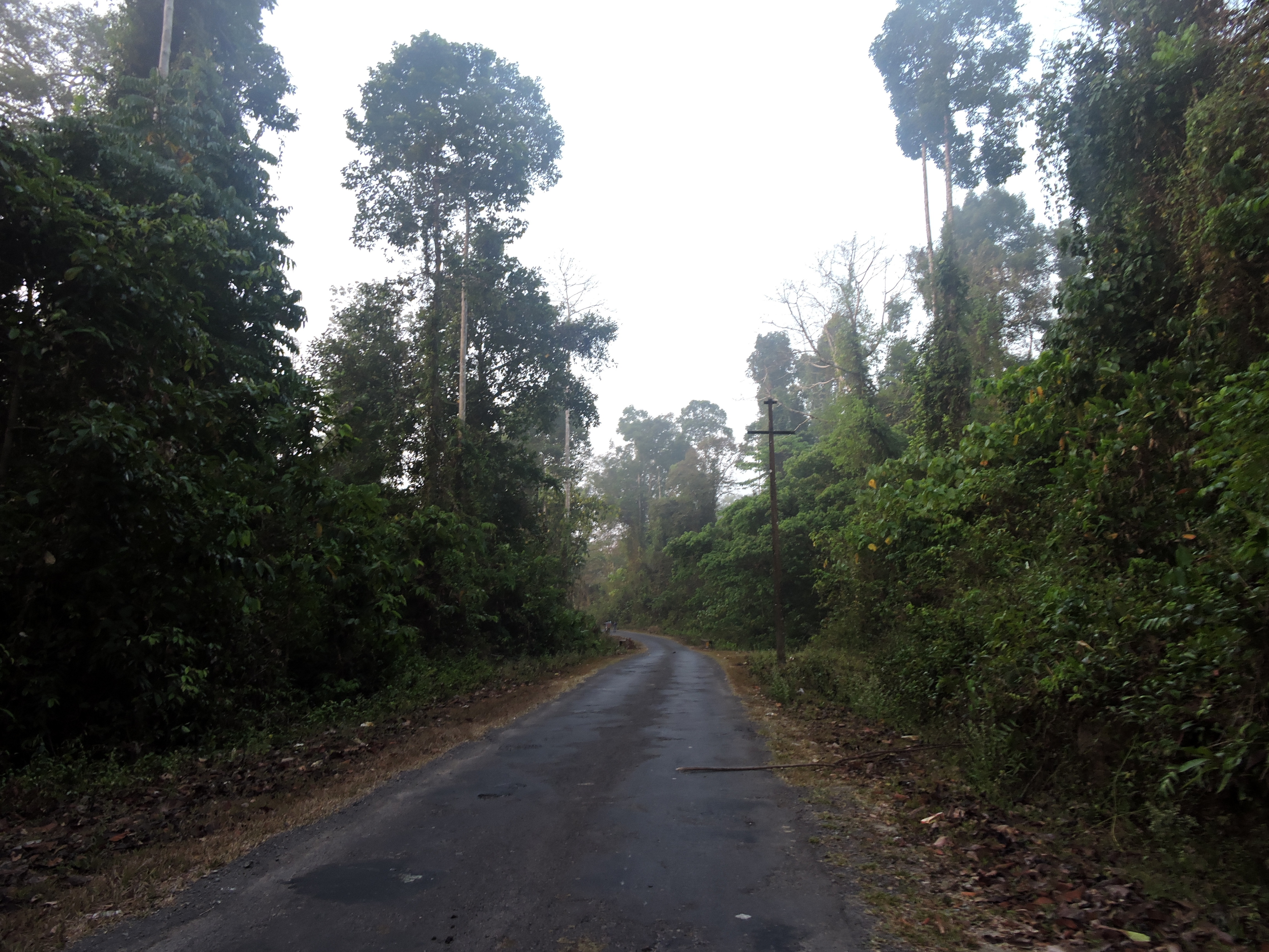 Jarwa reserve forest ,Andaman Islands, India